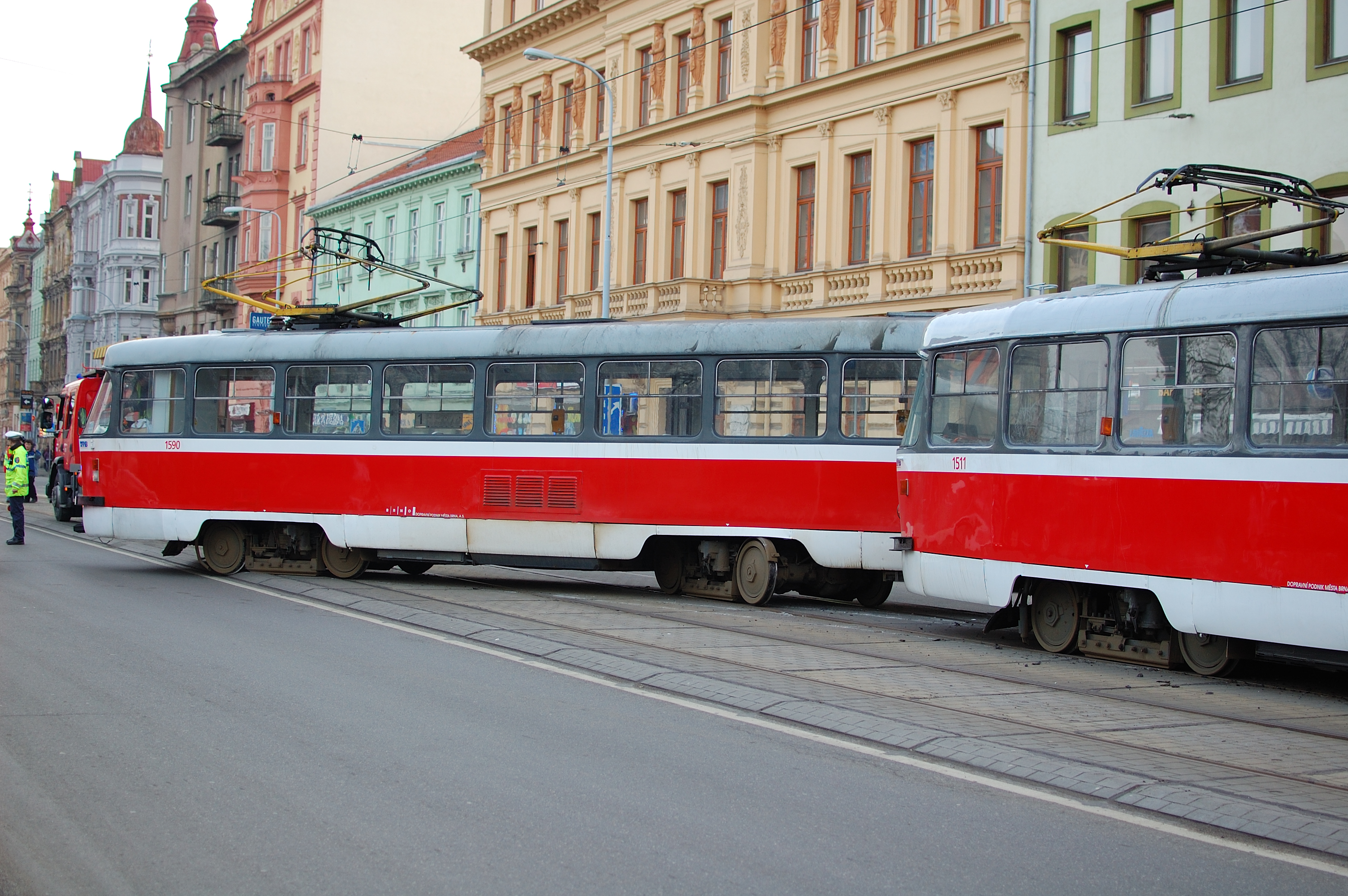 Derailed Tatra T3 tram in Brno, Czech Republic.